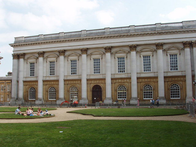 Library, Christ Church, Oxford. View from Peckwater Quad. Completed in 1772, more baroque than the classical architecture of the rest of the quadrangle. The giant unfluted Corinthian columns and the contrast of white and buff stone are the most noticeable features of the facade. See also 187942.Taken on a hot summer day which was the last day of term, undergraduates had finished their exams.